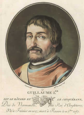 William I of England